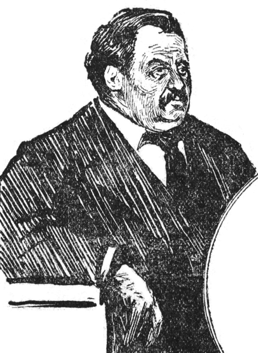 Justice Edward B. Thomas (1848–1929)